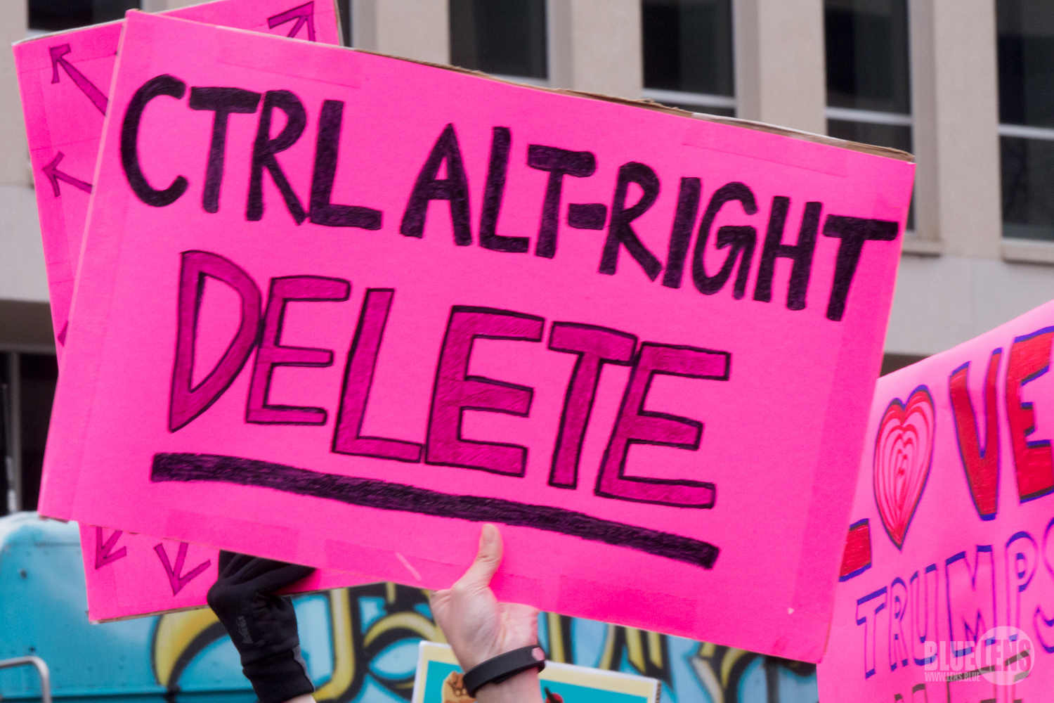 Trump-WomensMarch_2017-1060165